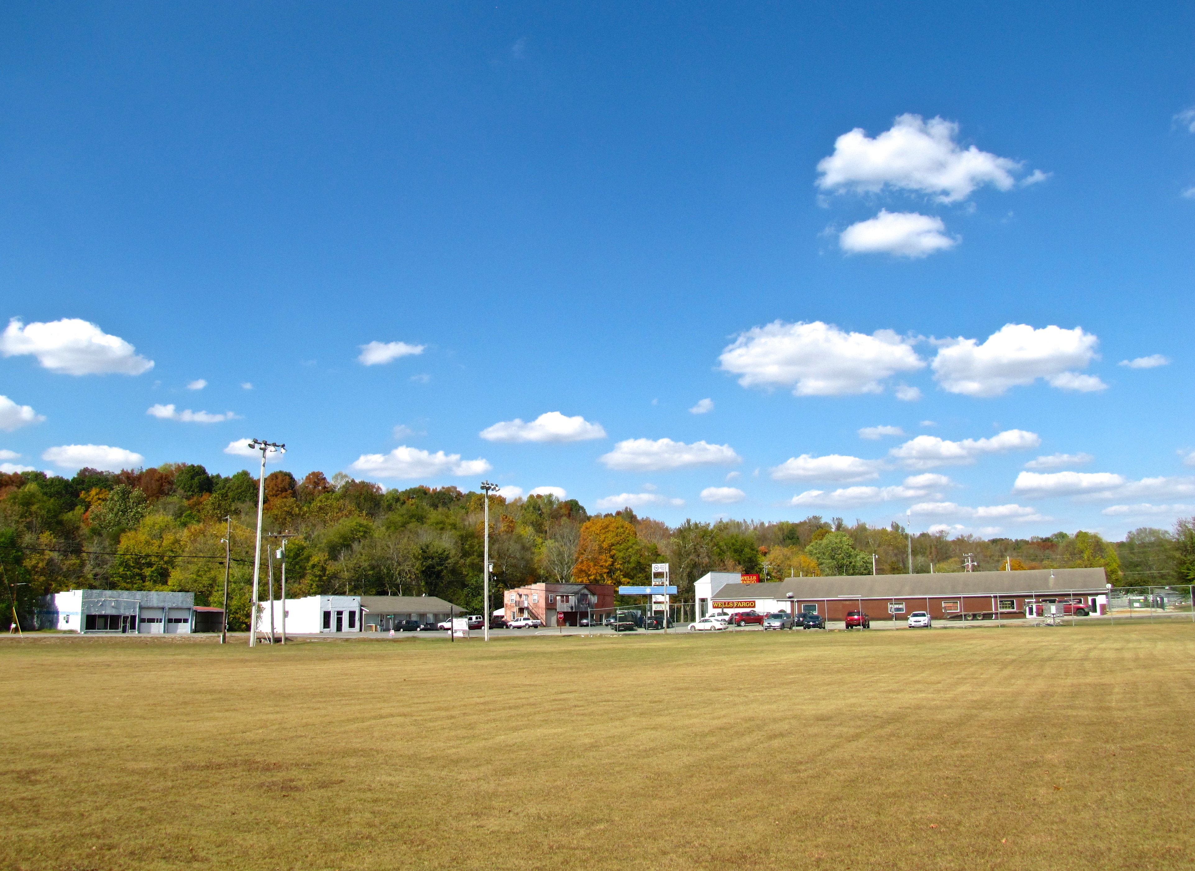 Anderson, Alabama, United States, looking toward the intersection of State Route 207 and Bayles Street.